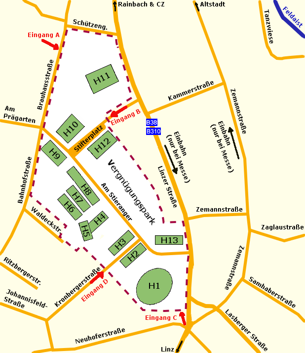 Map of Messe Muehlviertel